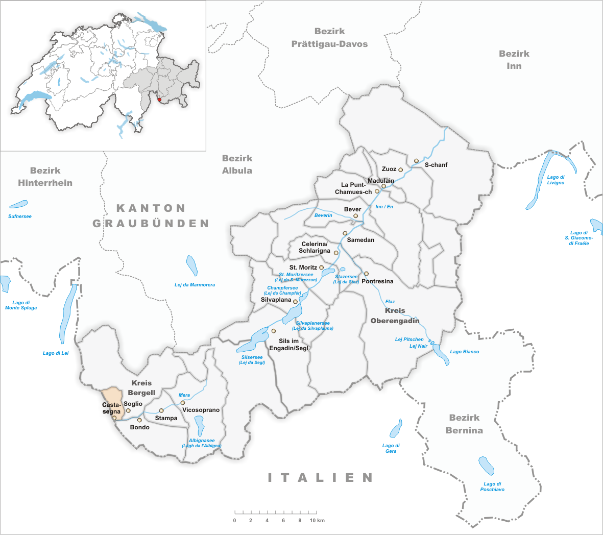 Municipality Castasegna